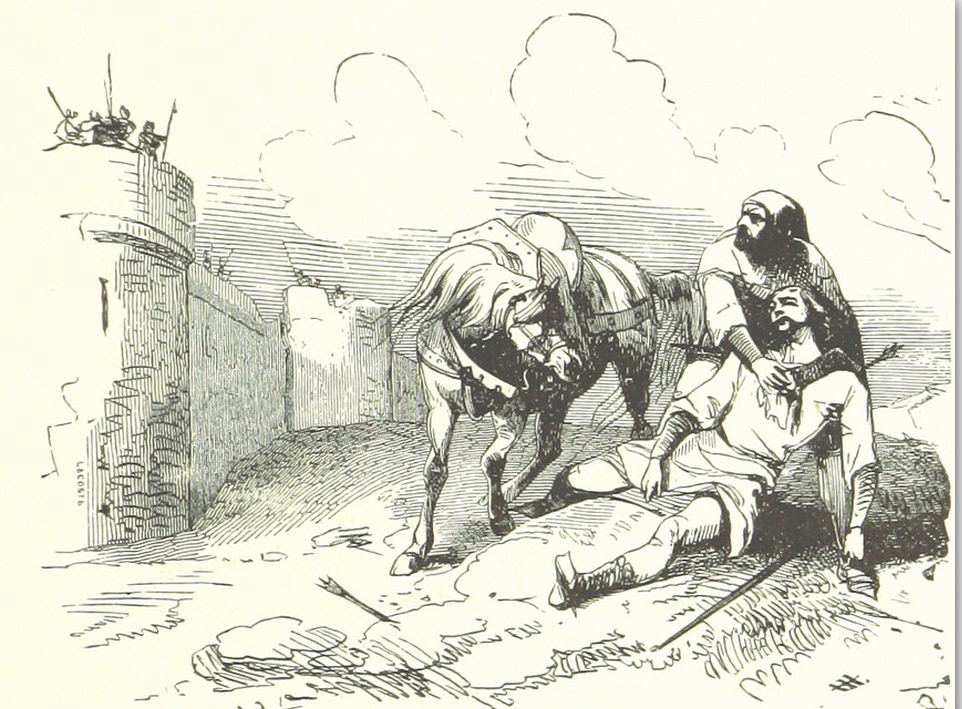 William Clito, Count of Flanders, mortally wounded during the siege of Alost (1128)